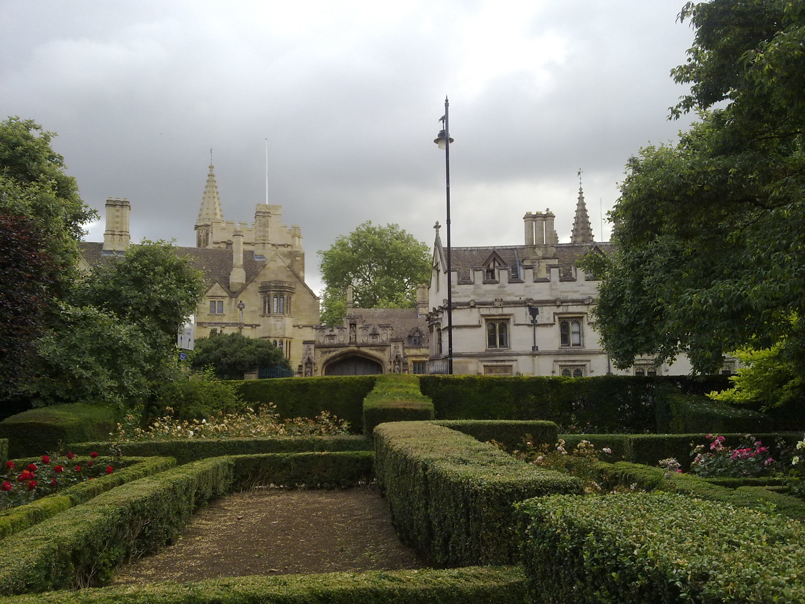 Magdalen College from the Rose Gardens of the Oxford Botanic Gardens across the High Street.